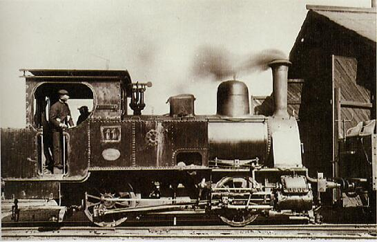 Kyushu Railway No. 11 (Class 4), a Krauss steam locomotive made in Germany